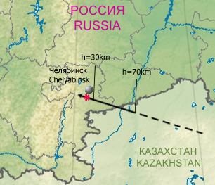 Chelyabinsk 2013 meteoroid trajectory